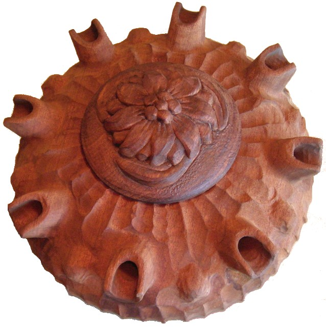 Photo of coppa dell'amicizia, cf on Italian wikipedia.